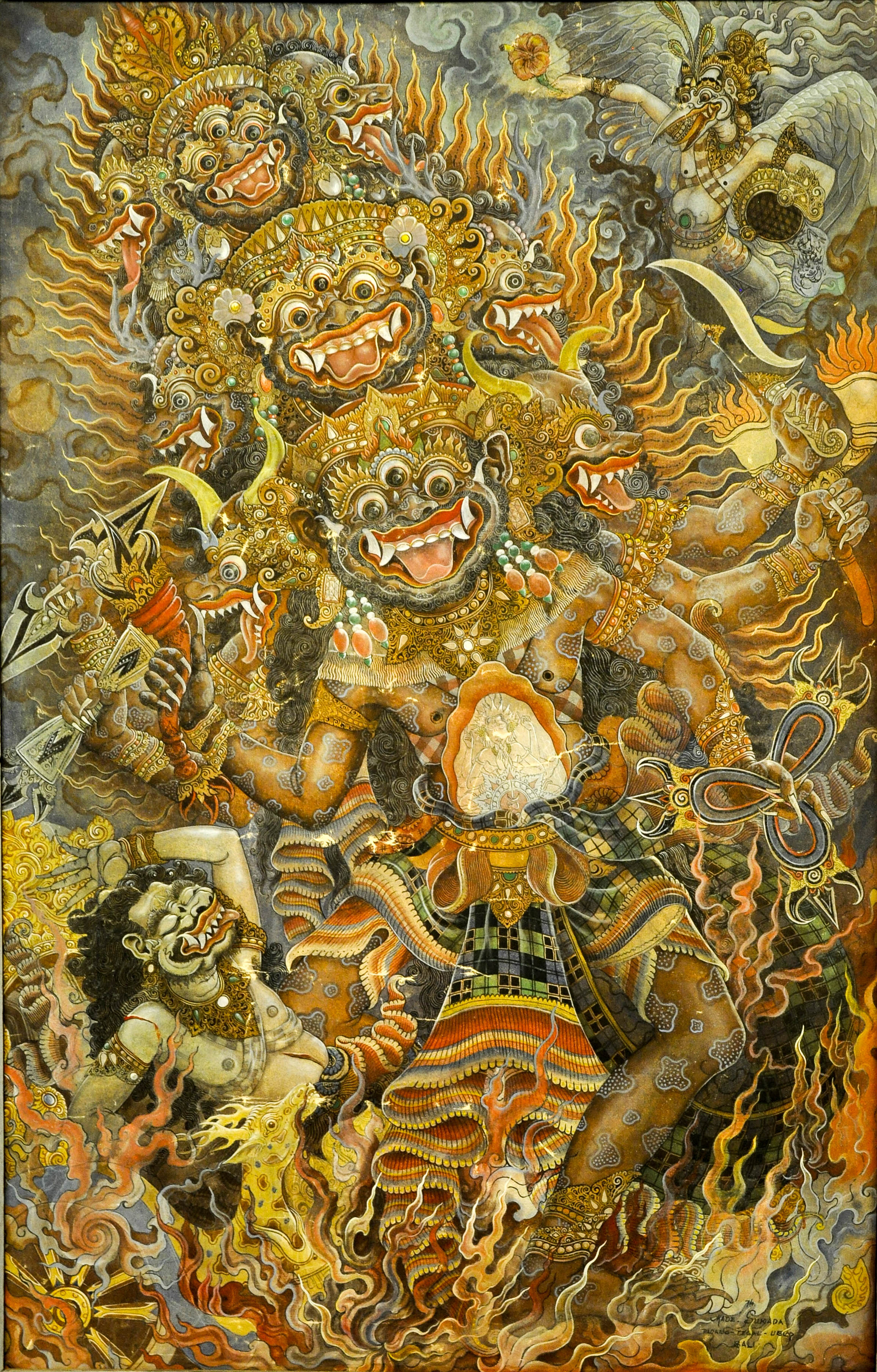 The Puri Lukisan Museum (Indonesian: Museum Puri Lukisan) is the oldest art museum in Bali which specialize in modern traditional Balinese paintings and wood carvings. The museum is located in Ubud, Bali, Indonesia. It is home to the finest collection of modern traditional Balinese painting and wood carving on the island, spanning from the pre-Independence war (1930–1945) to the post-Independence war (1945 – present) era. The collection includes important examples of all of the artistic styles in Bali including the Sanur, Batuan, Ubud, Young Artist and Keliki schools